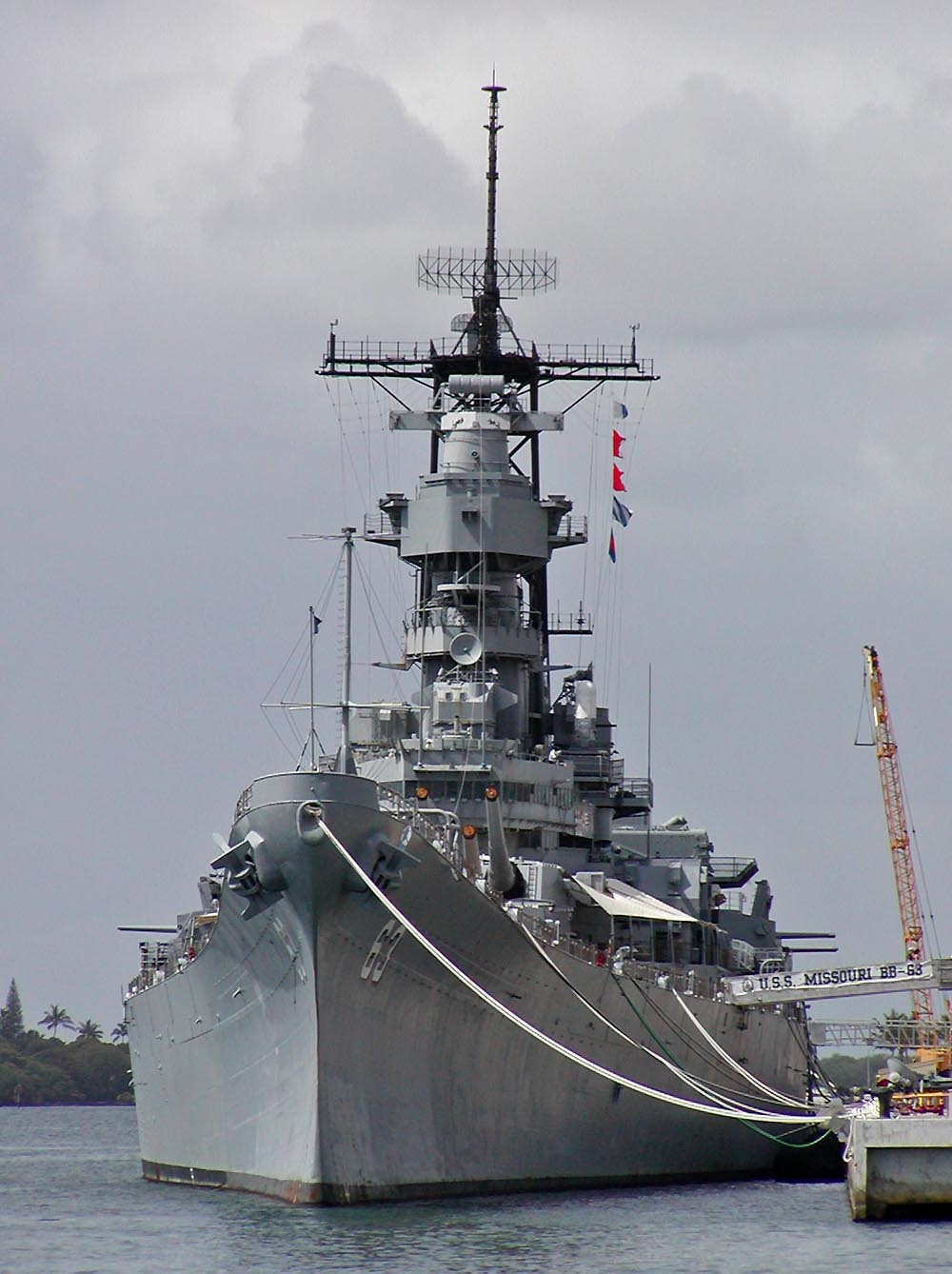 USS Missouri (BB-63) from bow